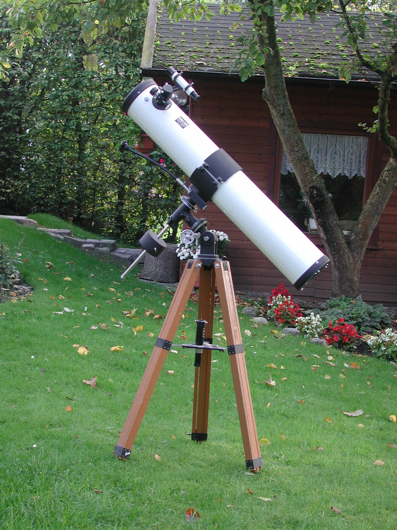 Newton Reflector 4,5’’ (f = 2’ 11.4’’)